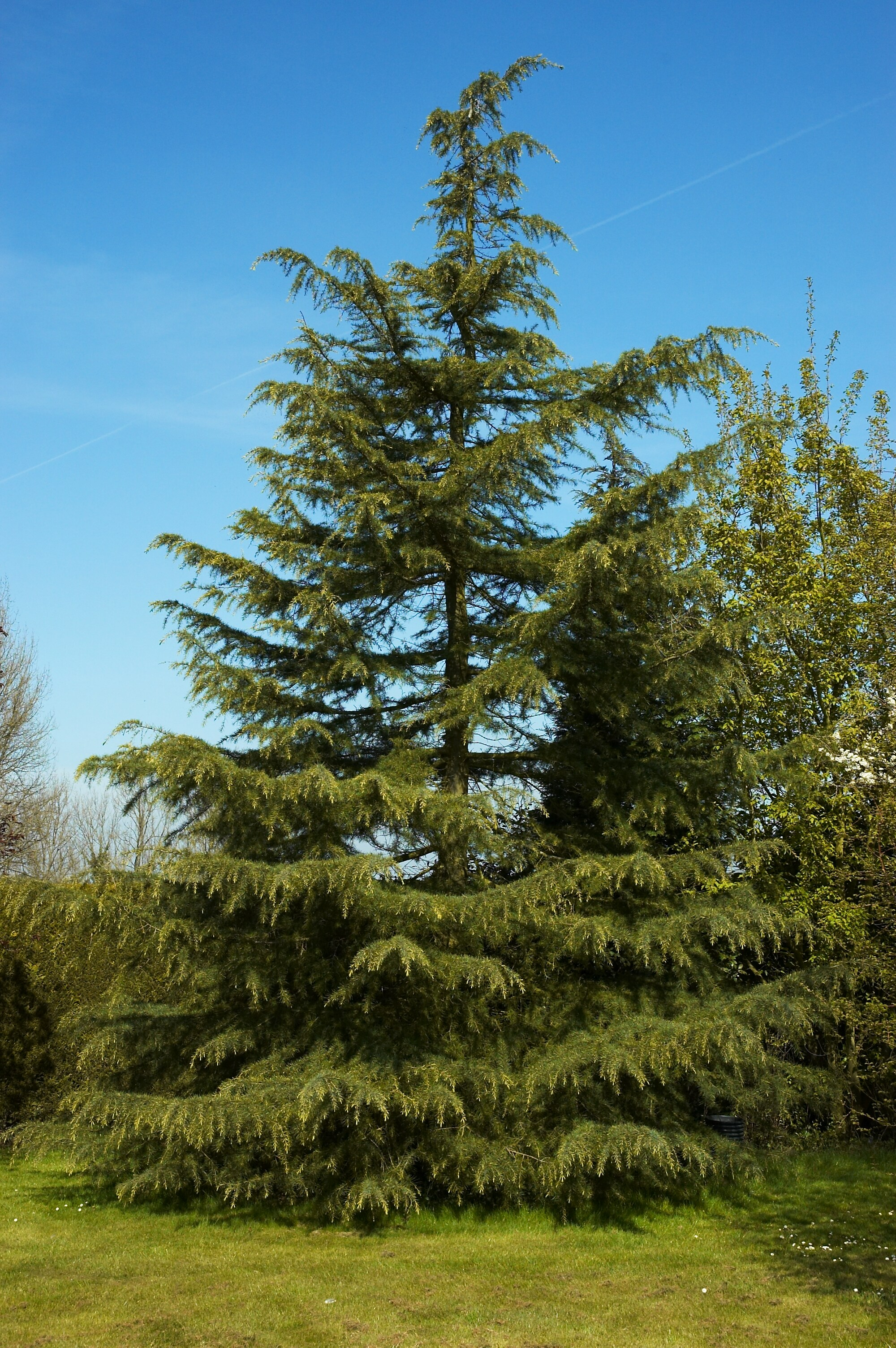 Deodar about 15 years